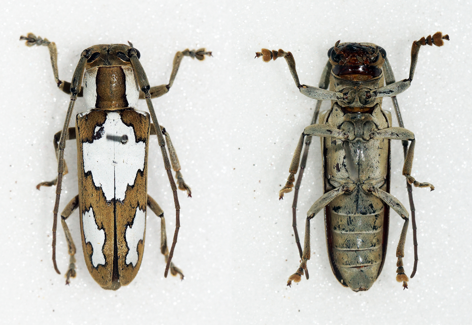 Chabrillac,1857 Sex: Male Data: 08-2011 - Kaw Mountain - French Guiana Size: 20mm